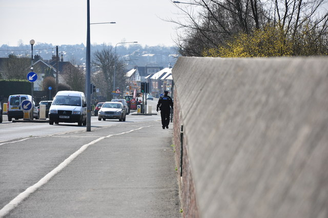 Ipswich Road, looking south The view heading into town from the rail bridge.